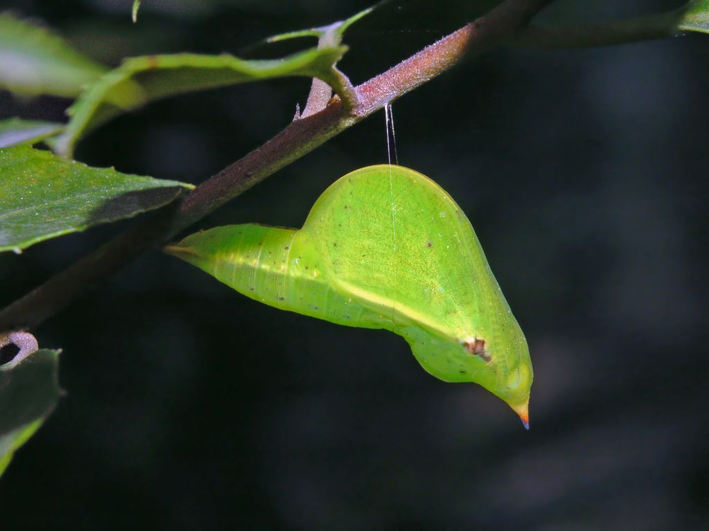 Gonepteryx cleopatra - chrysalis